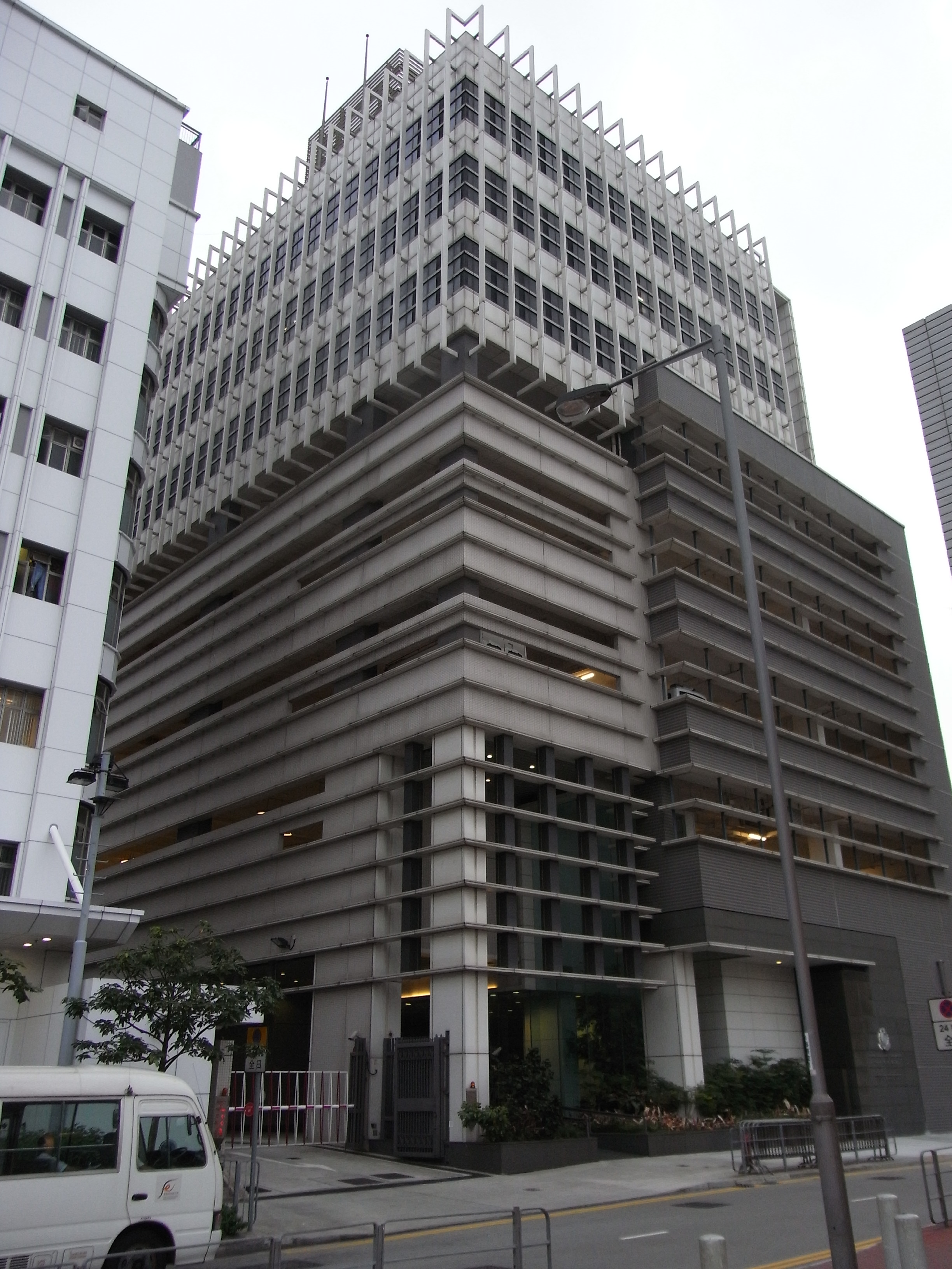 Evening in Chung Kong Road, Sheung Wan, Hong Kong